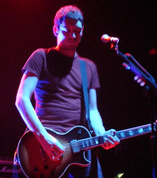 Photo by Siv75